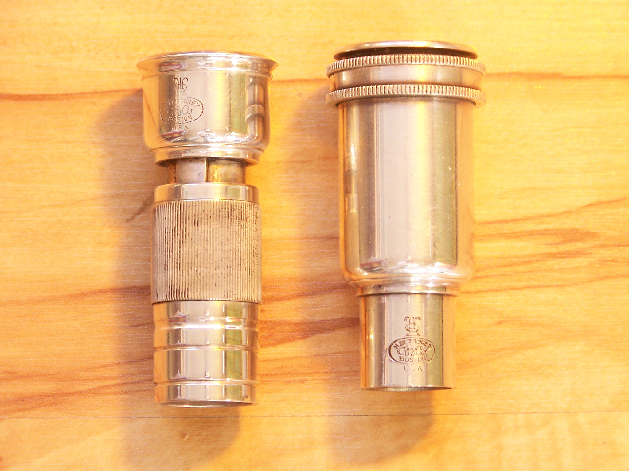 two styles of tunable barrel for Silva-Bet clarinet